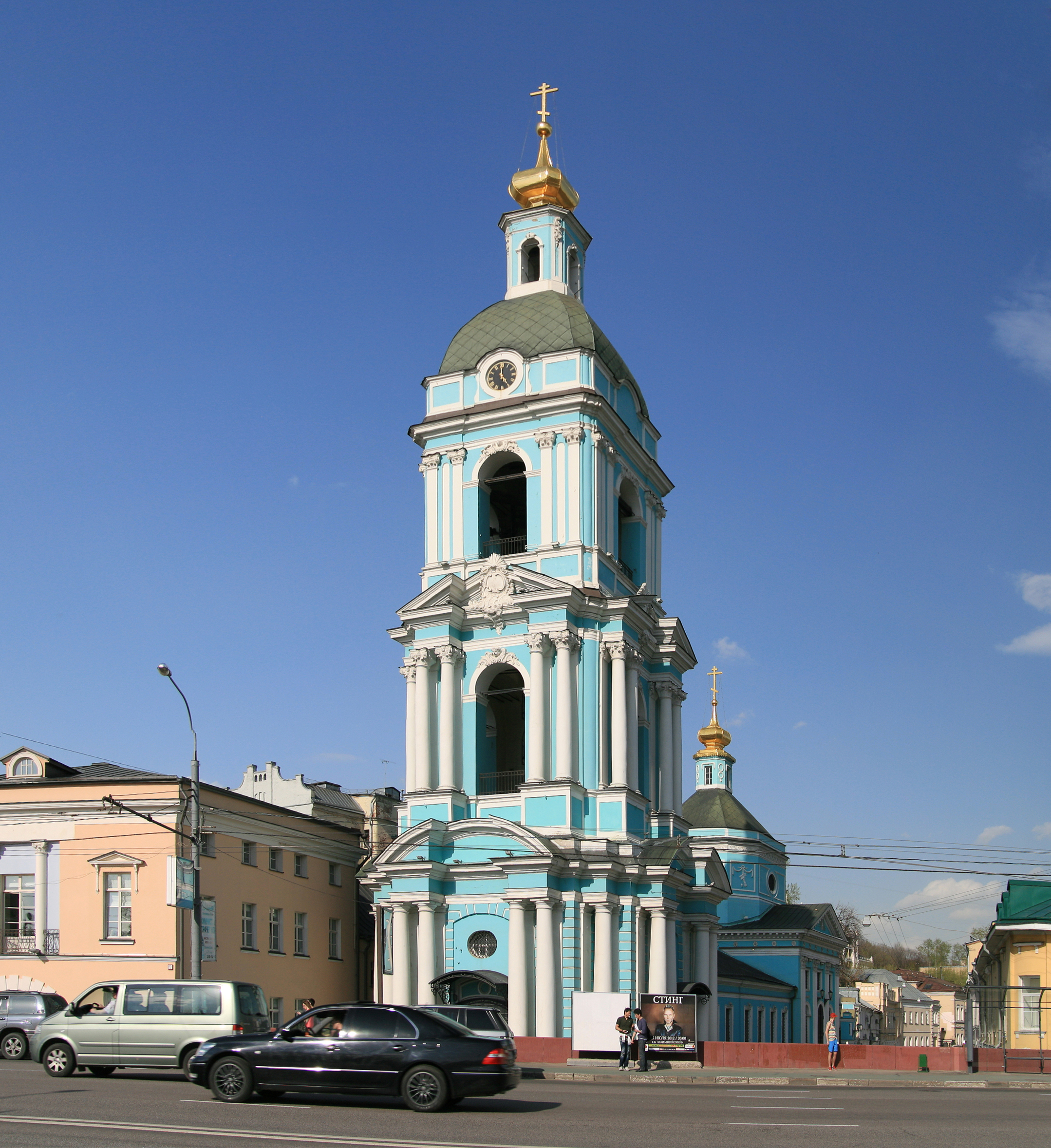 The bell tower of church of Trinity in Serebryaniki, 1780s, Moscow